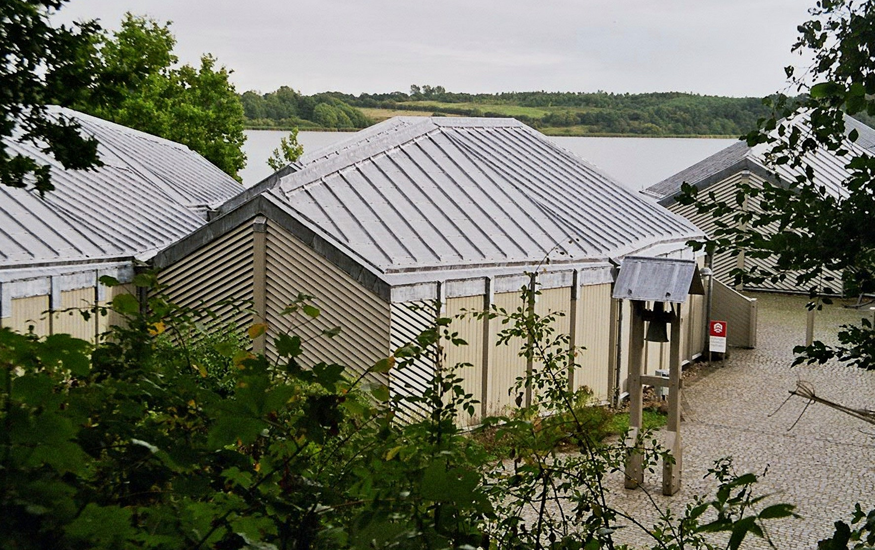 Source: made by WikiTour 2005 Description: (de:) Haithabu - Das Wikinger-Museum Haithabu